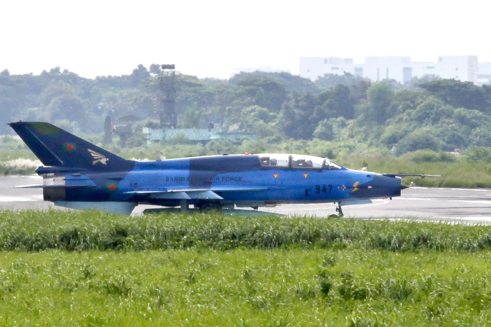 Bangladesh Air Force F-7 Air Guard